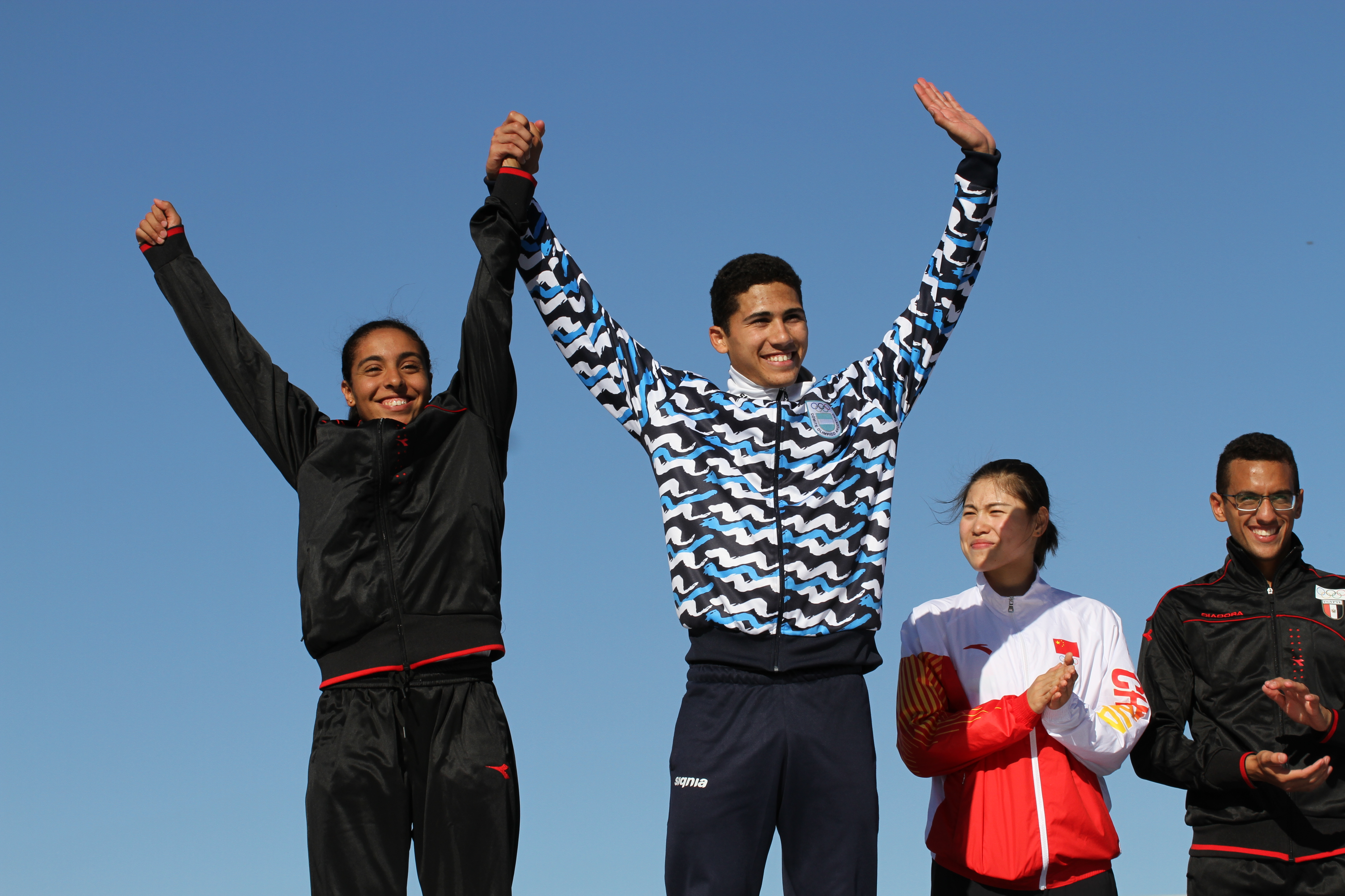 Victory ceremony of the modern pentathlon mixed relay team at the 2018 Summer Youth Olympics.